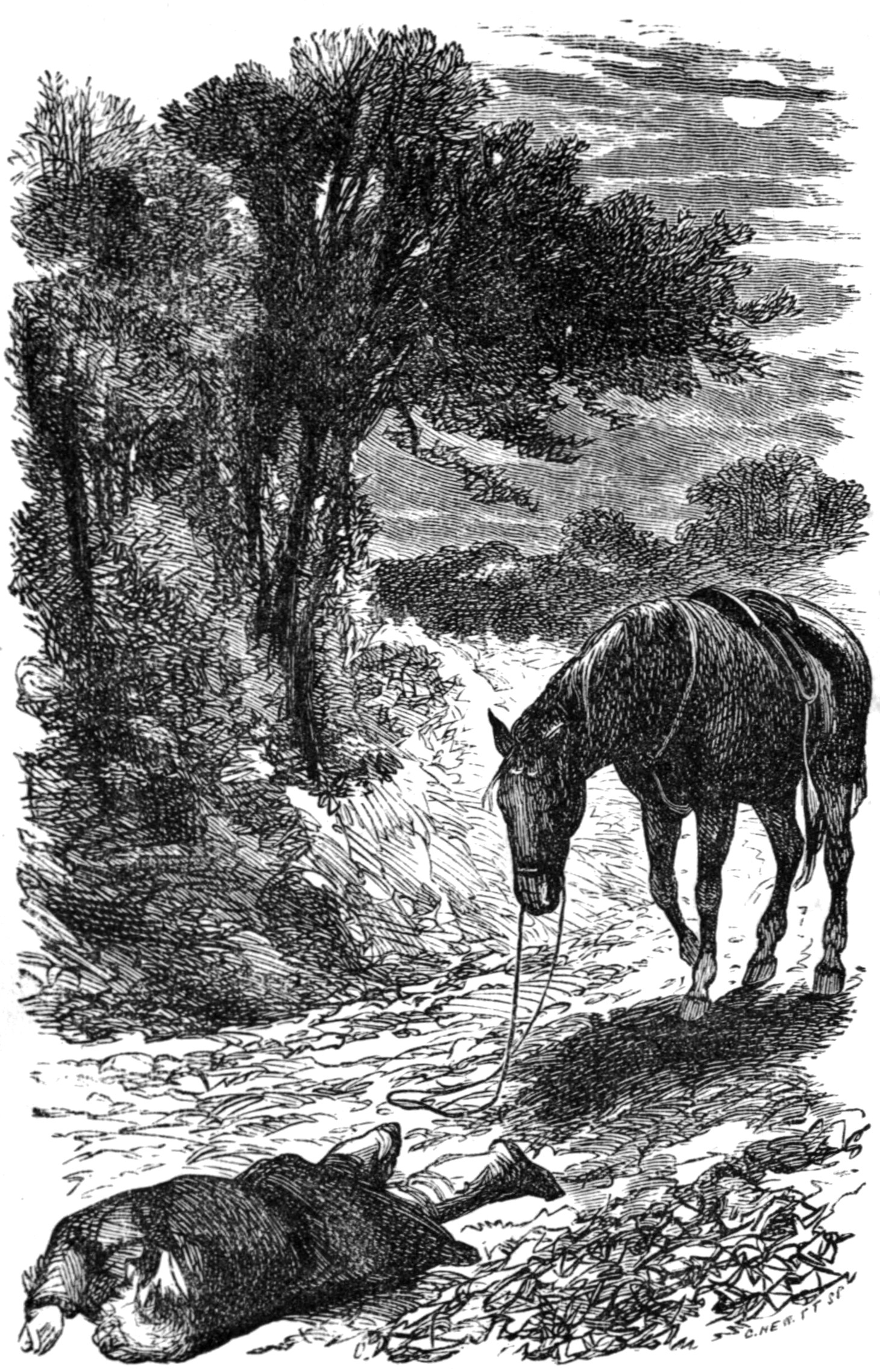 Page 6 of File:Black Beauty (1877).djvu.